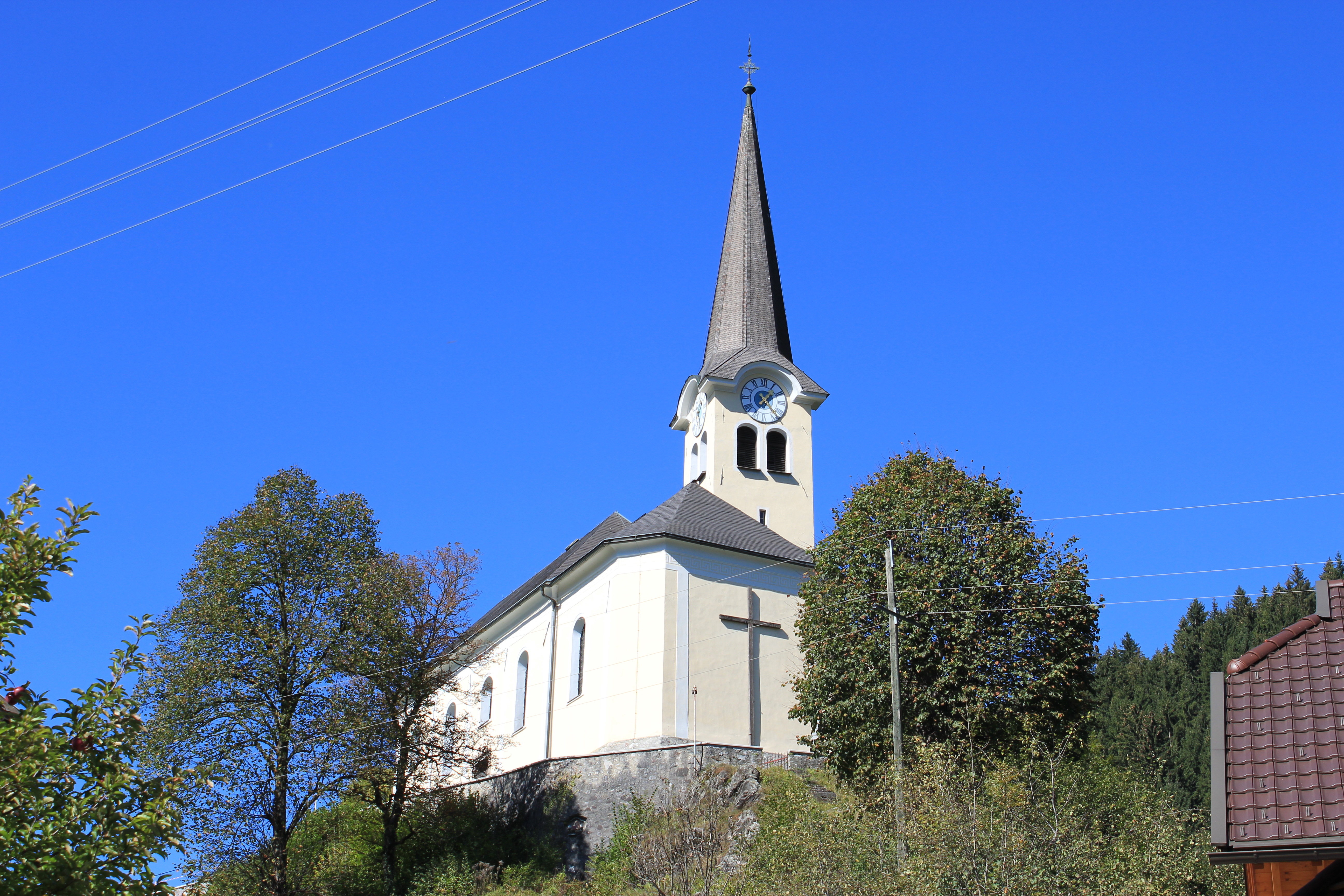 Church of Reisach in the community of Kirchbach